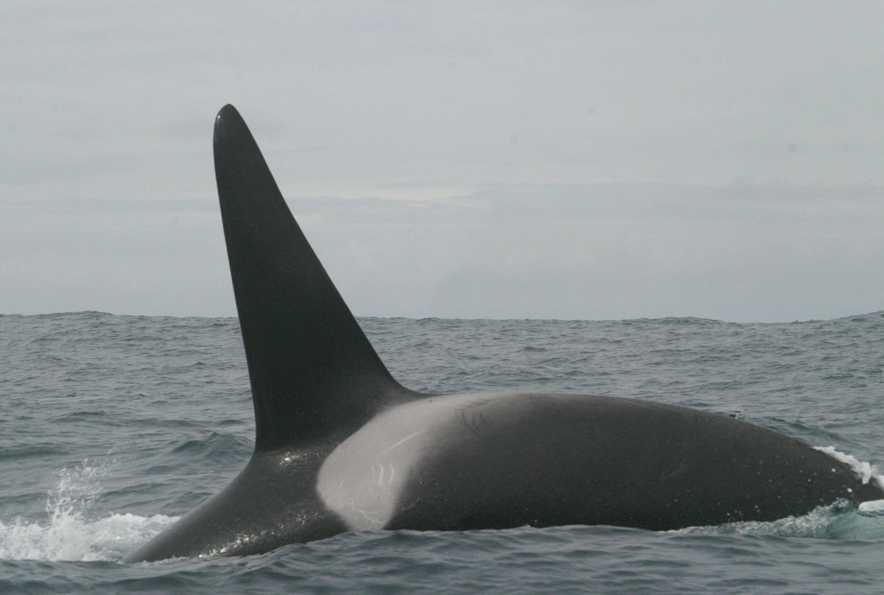 A Killer Whale in the Pacific Ocean, tropical.